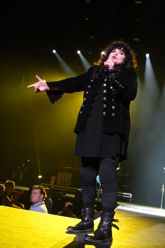 Heart's first Australian tour 2011 (with Def Leppard)